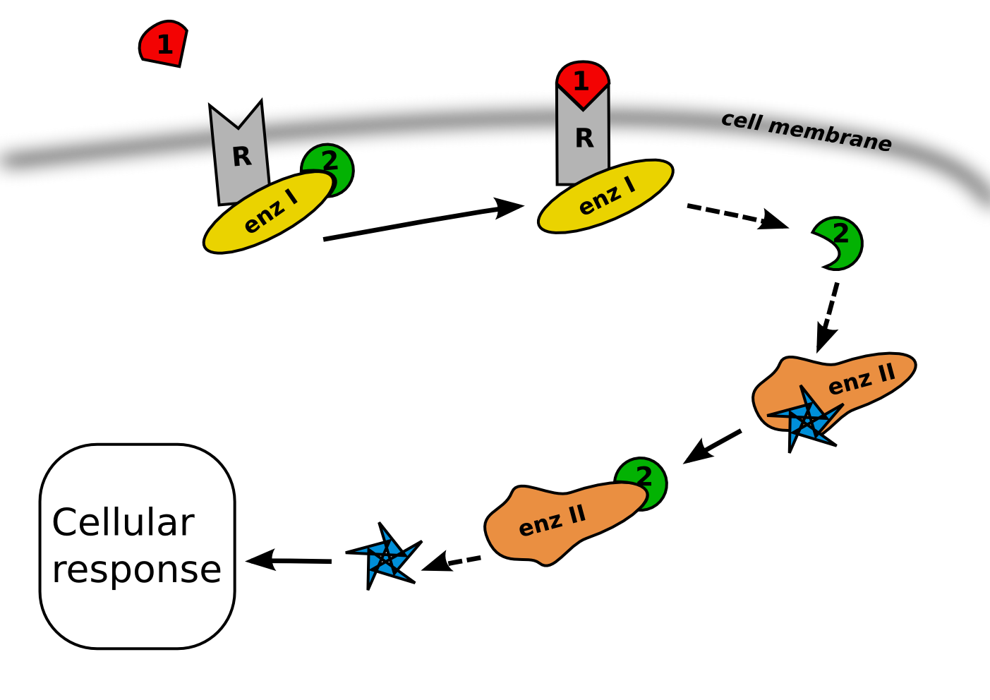 this is the png version of the svg file